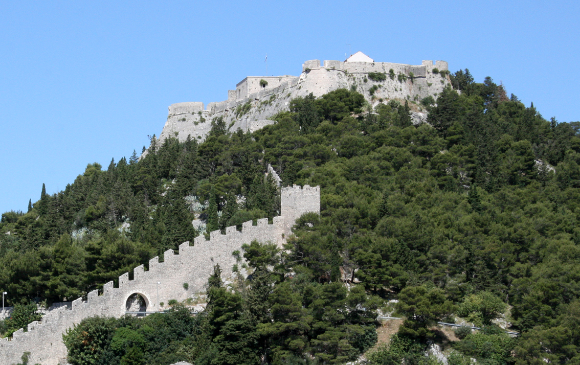 Spanjola